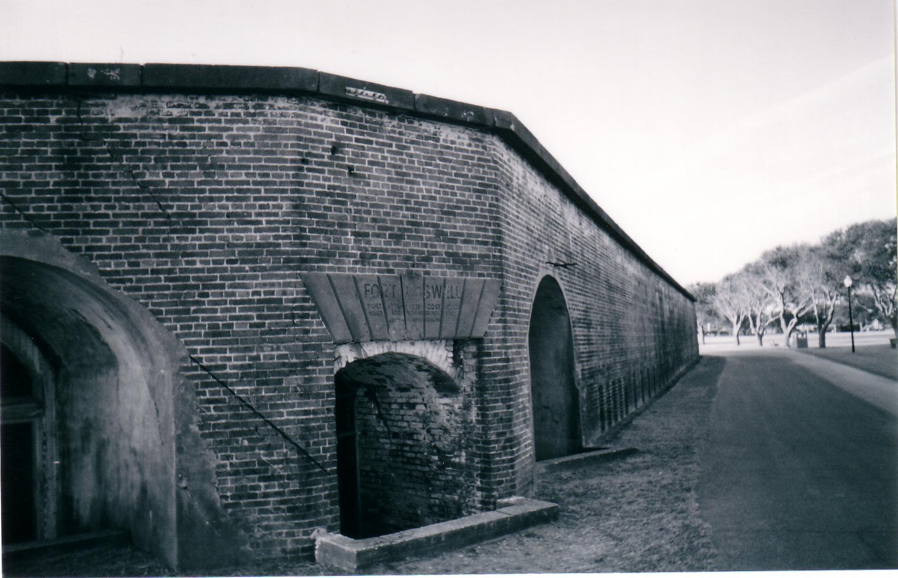 The entrance to Fort Caswell on the grounds of the NC Baptist Assembly. Taken with a Kodak point-and-shoot 35mm camera with black and white film.